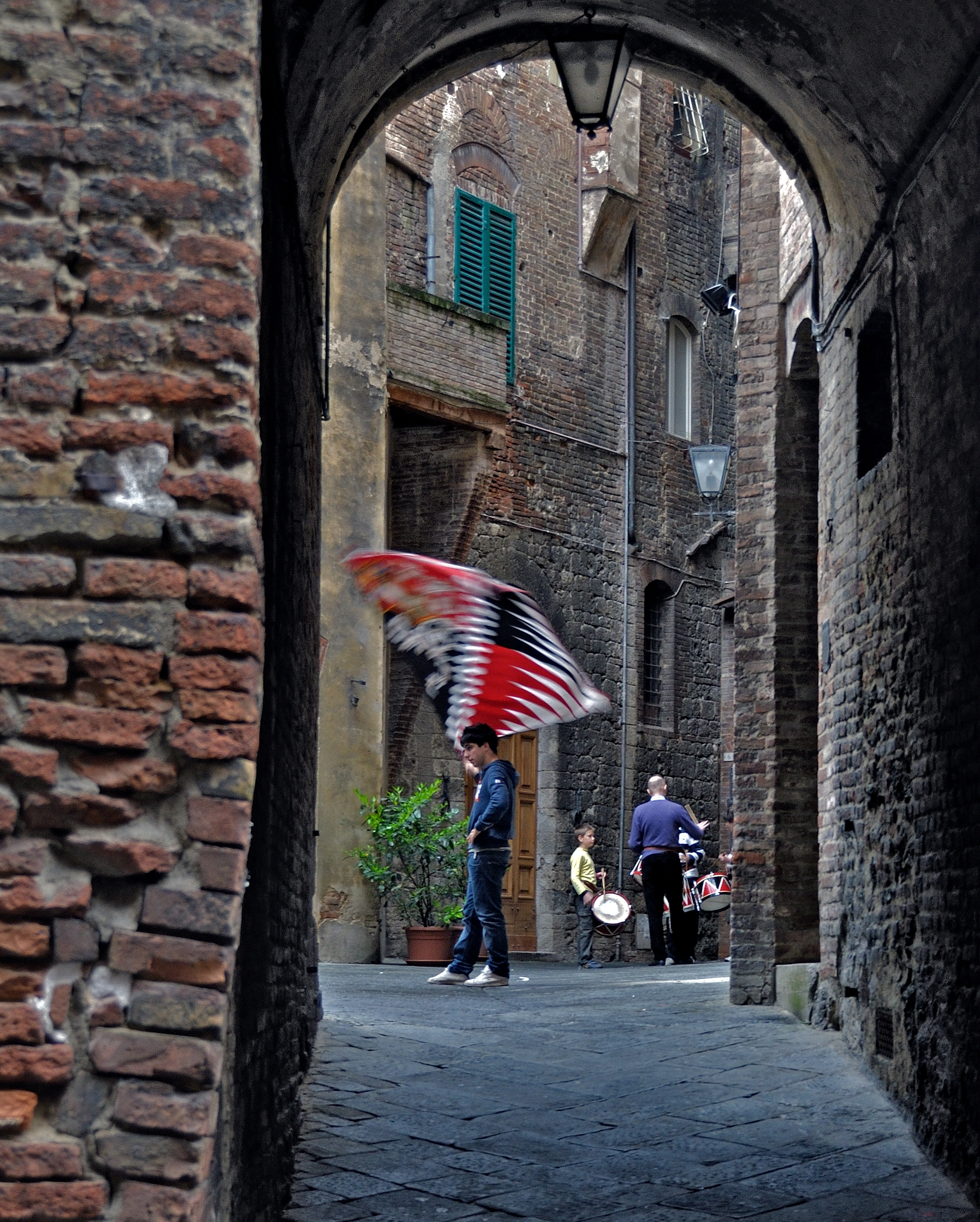 Rehearsal for the Palio. Contrada Priora della Civetta (Little Owl). Siena, Italy